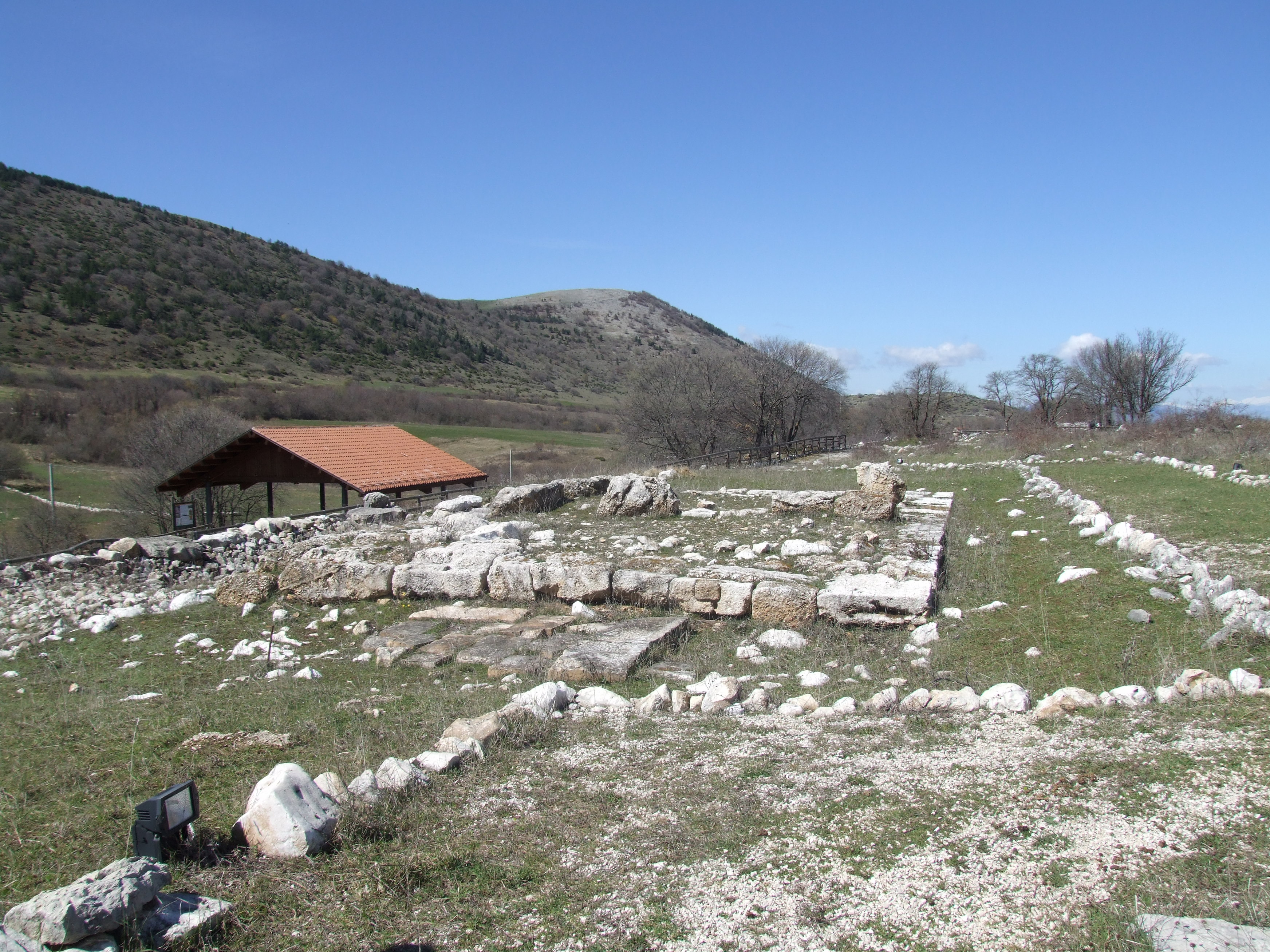 The Italic Temple of Ocriticum